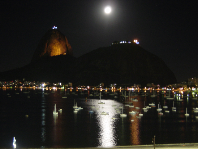 Rio de Janeiro (Brazil) city. A night view of the Botafogo harbour, with the moon above the Sugar Loaf mountain.